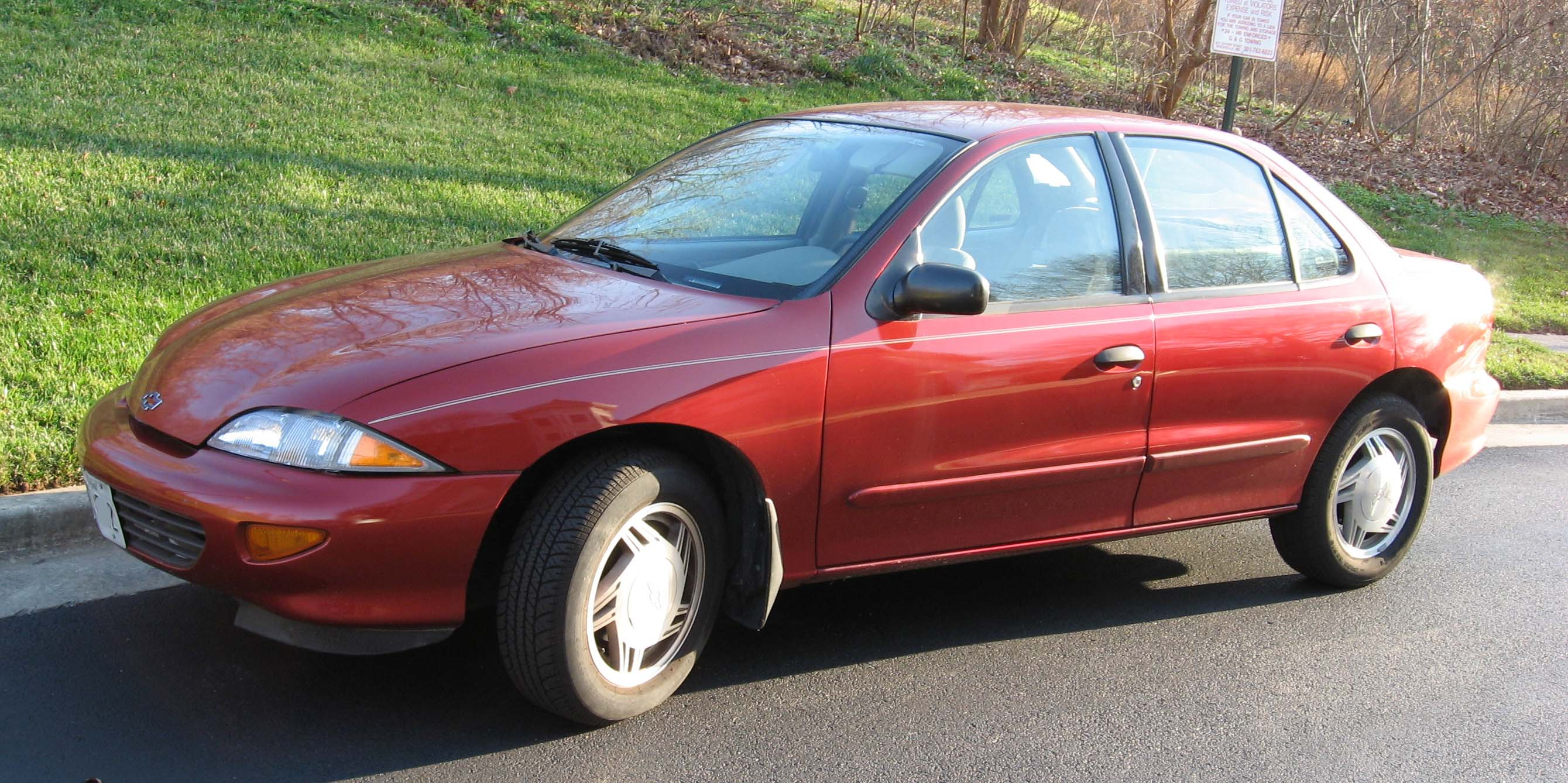 1995-1999 Chevrolet Cavalier photographed in USA.